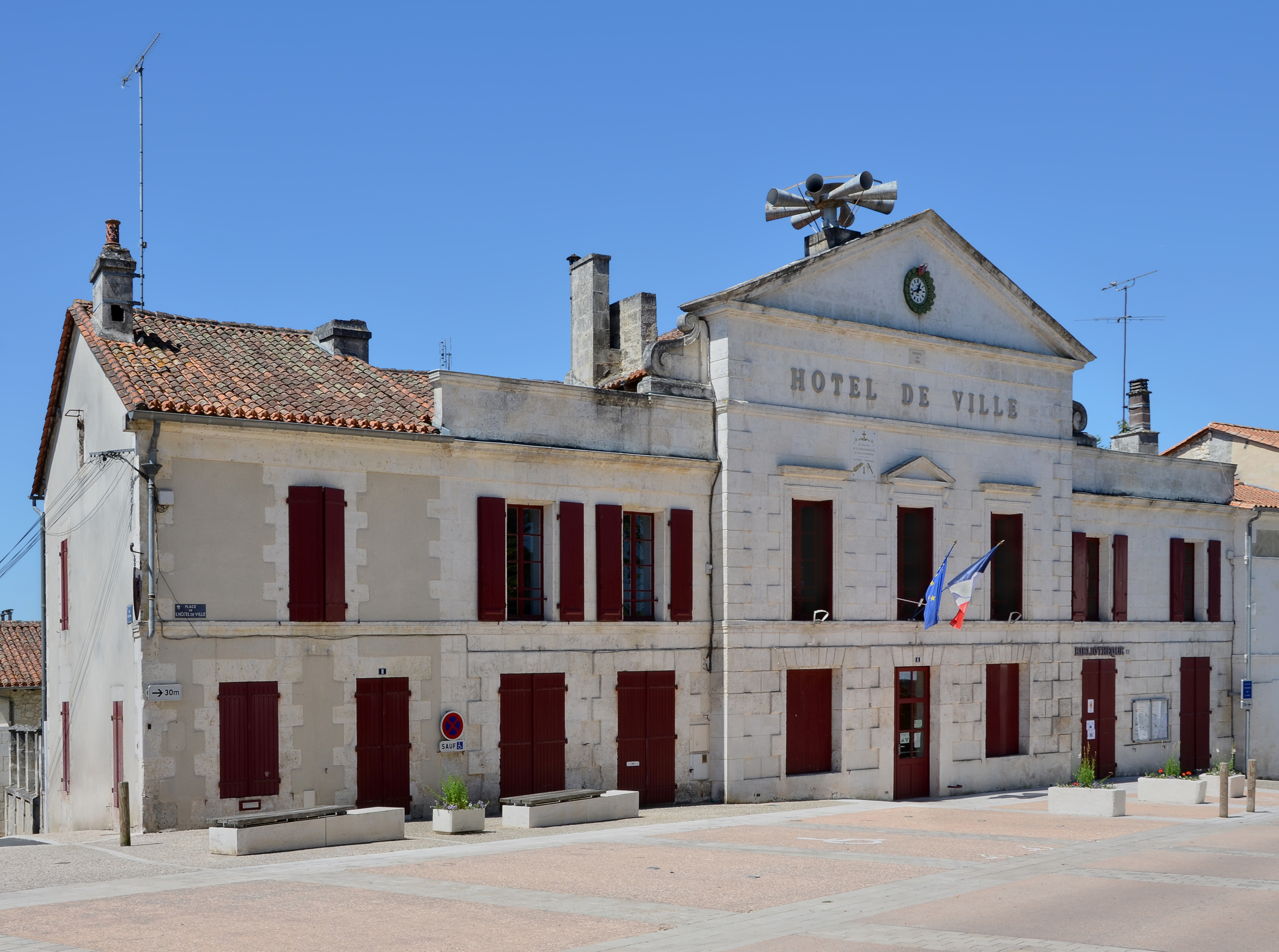 Facade of the town hall of Mareuil, Dordogne, France.